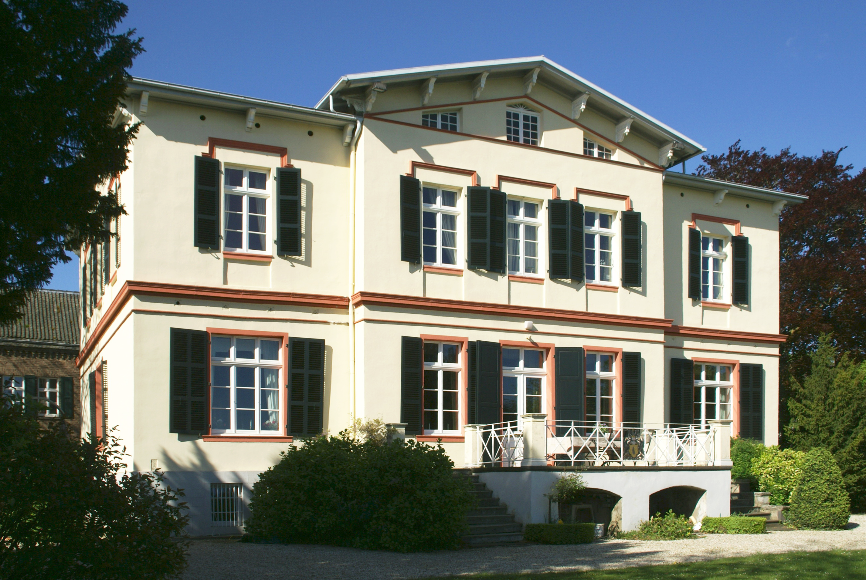 Gielsdorf, Blechgasse 1: Haus Gielsdorf, view from the garden